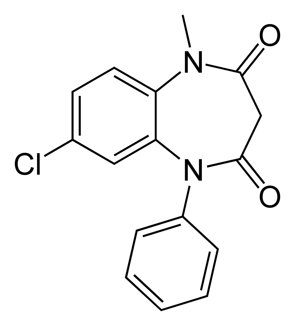 Skeletal formula of clobazam—a benzodiazepine derivative used as an anticonvulsant and anxiolytic.